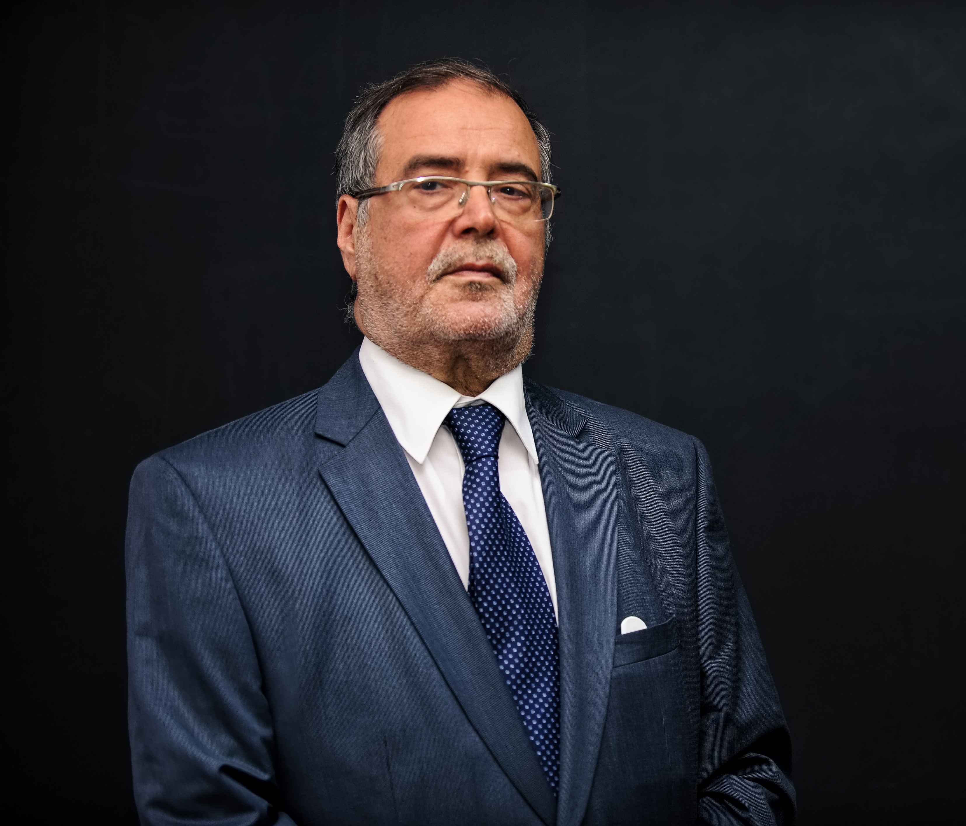 Libyan politician who has served as Deputy President of the General National Congress of Libya since 2012, and Acting President of the General National Congress